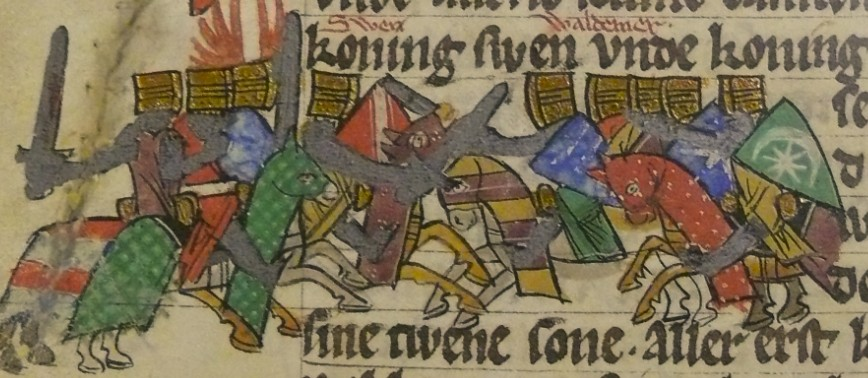 Valdemar I of Denmark and Sweyn III of Denmark